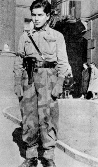 Warsaw Uprising: Young insurgent in front of Ruczaj Battalion headquarters at Mokotowska 51/53 Street.